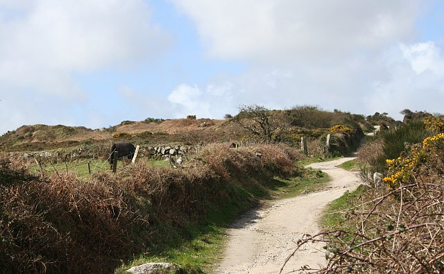 Carn Marth. Looking west to the summit of Carn Marth from the eastern path.